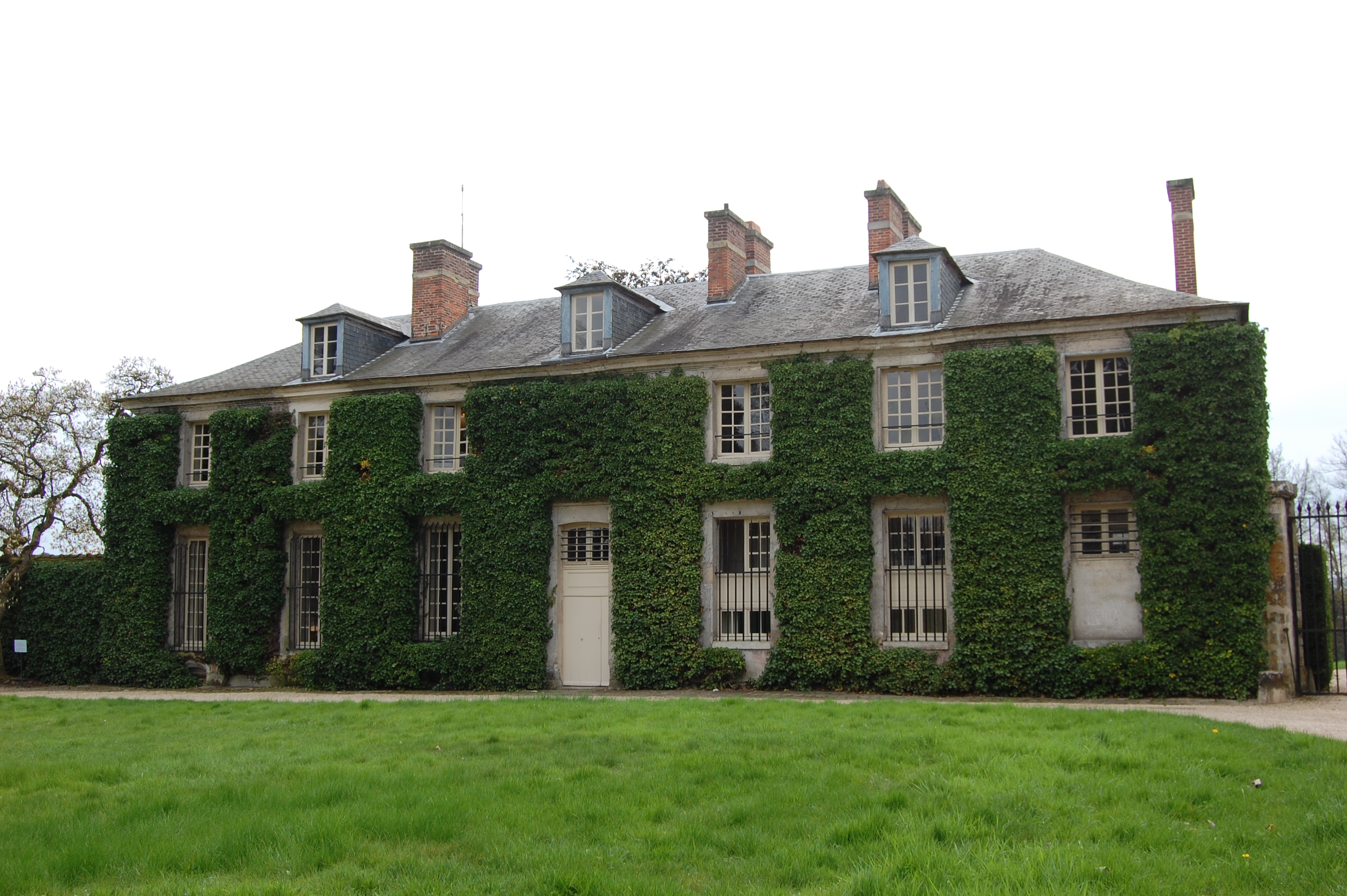 Research center of the Château de Versailles&, Pavillon de Jussieu, Trianon, Palace of Versailles